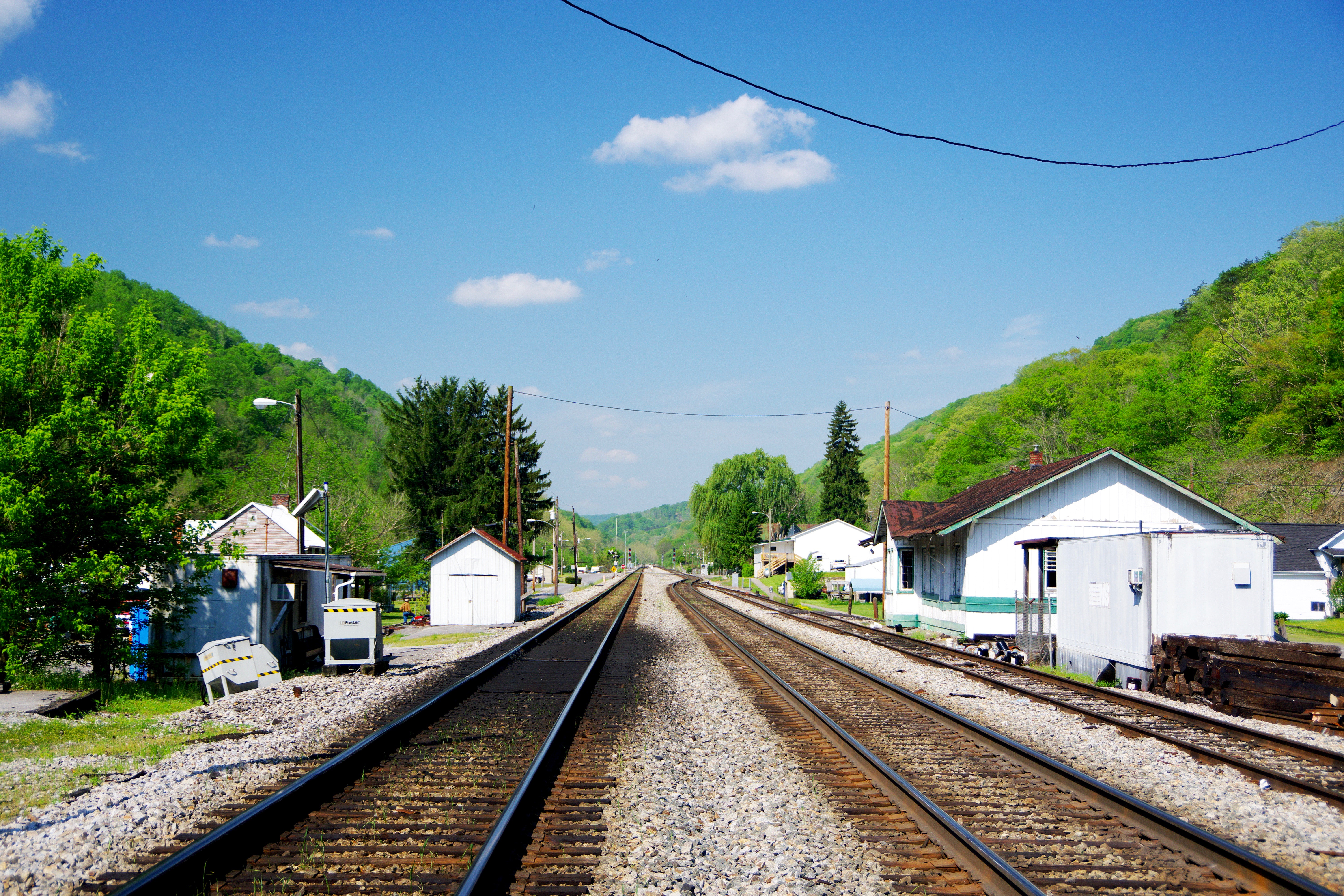 Looking west along the railroad tracks in Oakvale, West Virginia, United States.